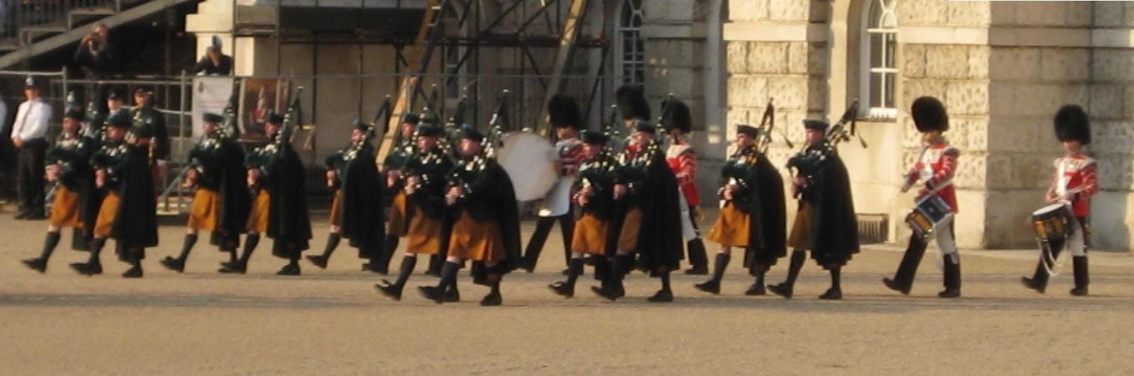 Pipes and Drums of the Irish Guards at Beating Retreat 2008